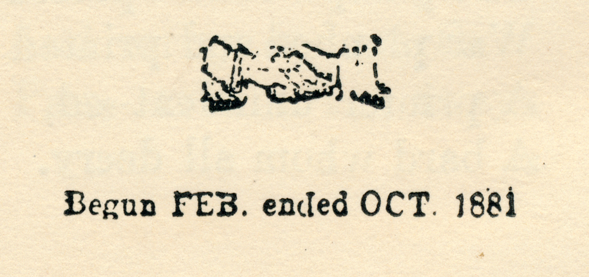 Detail of the last page of Not I!